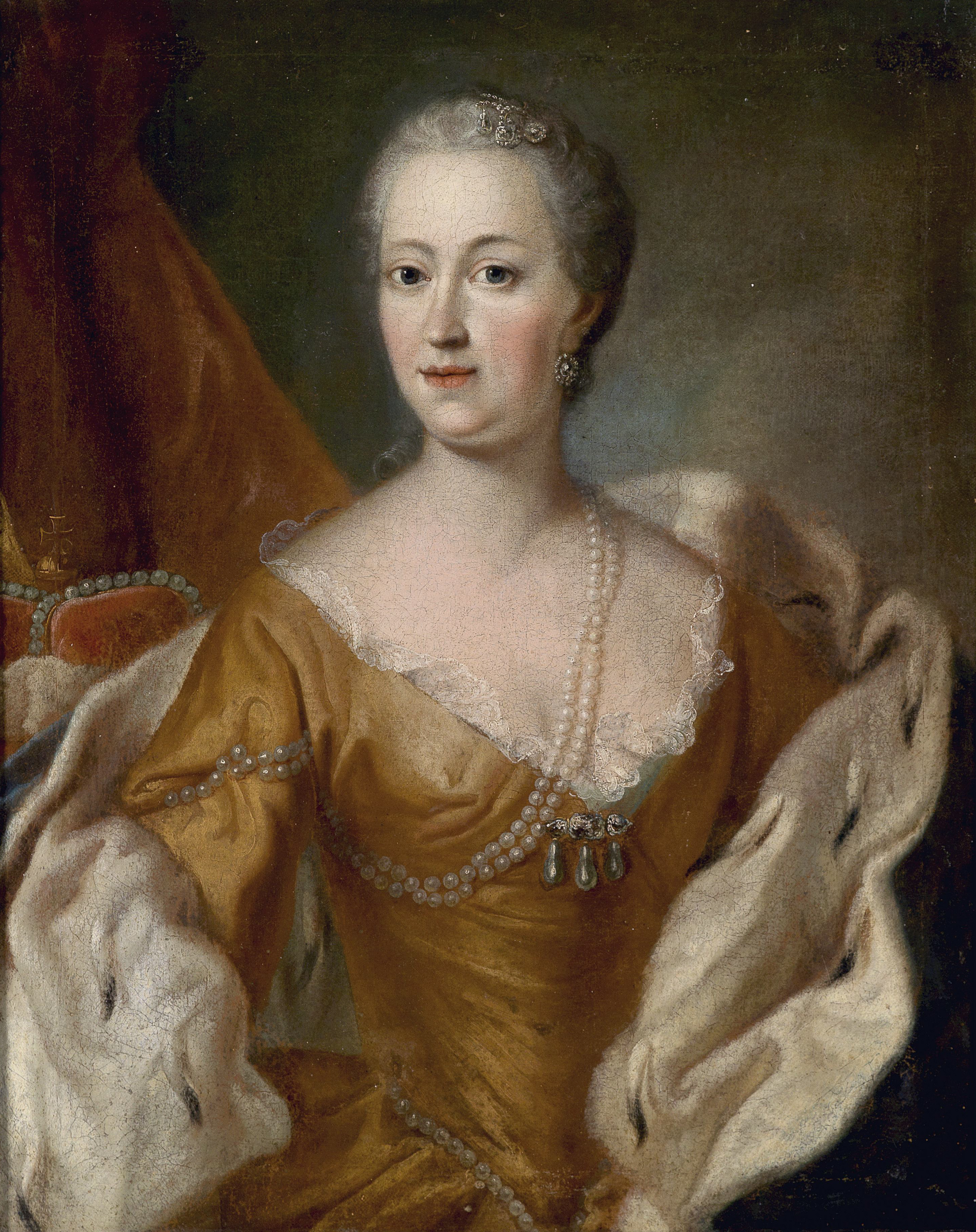 Portrait of Maria Theresia (1717-1780)